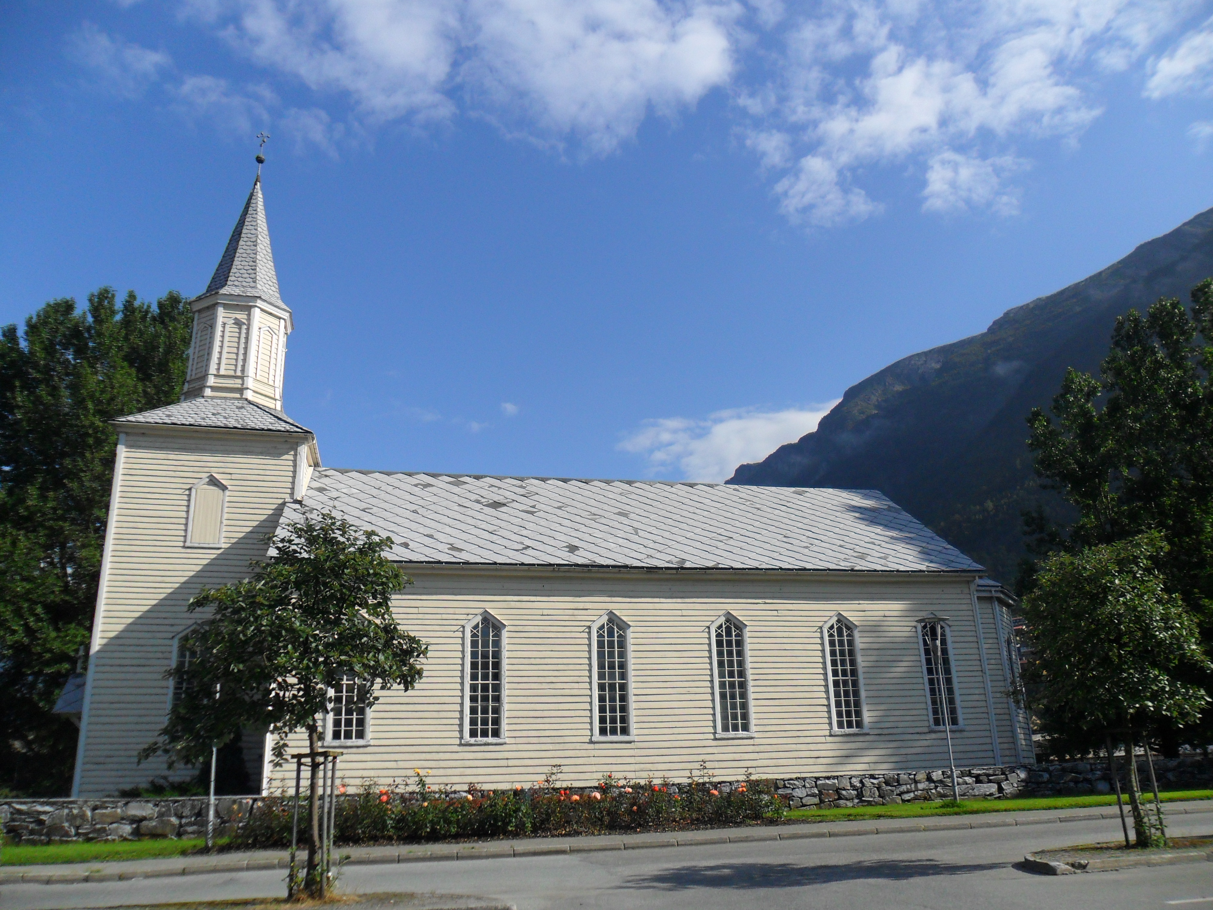 Odda church in Odda county, Hordaland, Norway